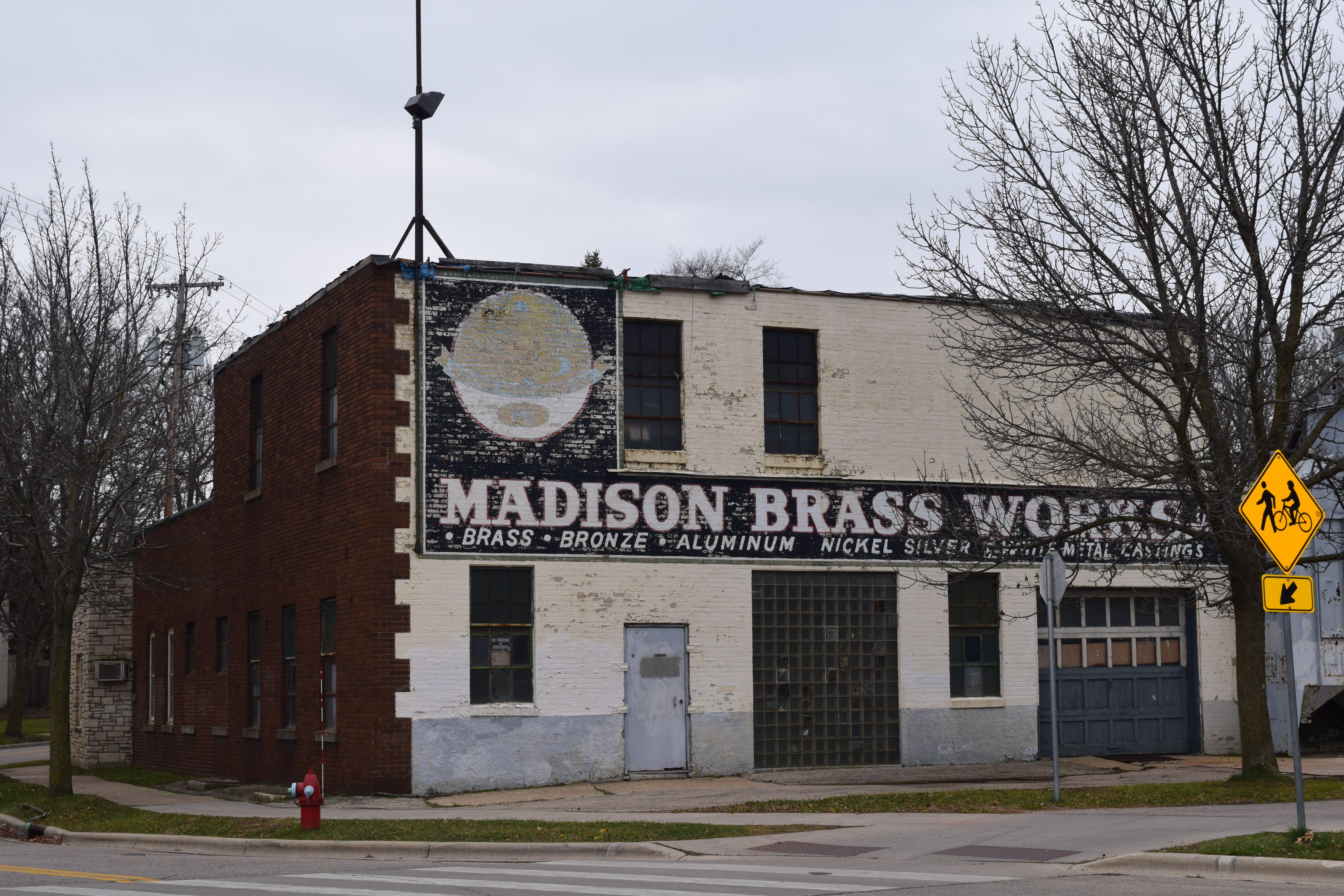 The Madison Brass Works, located at 206-214 Waubesa St. in Madison, Wisconsin.